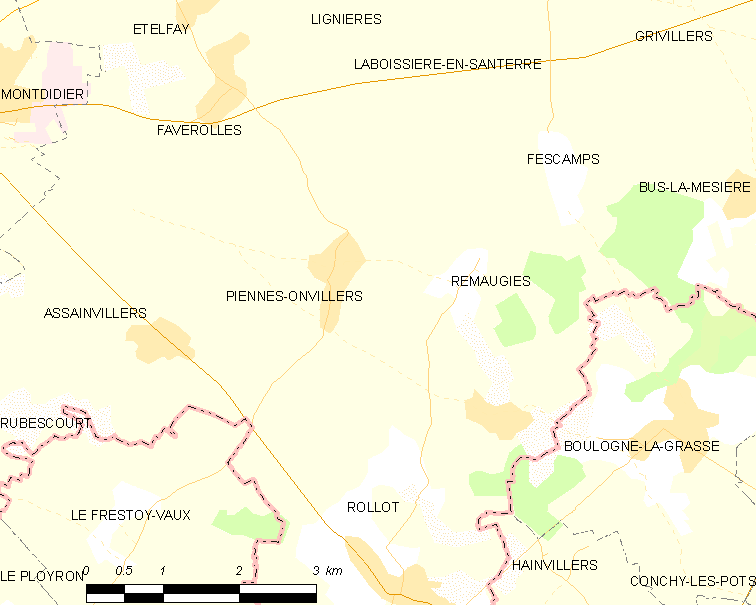 Map of French municipality Piennes-Onvillers